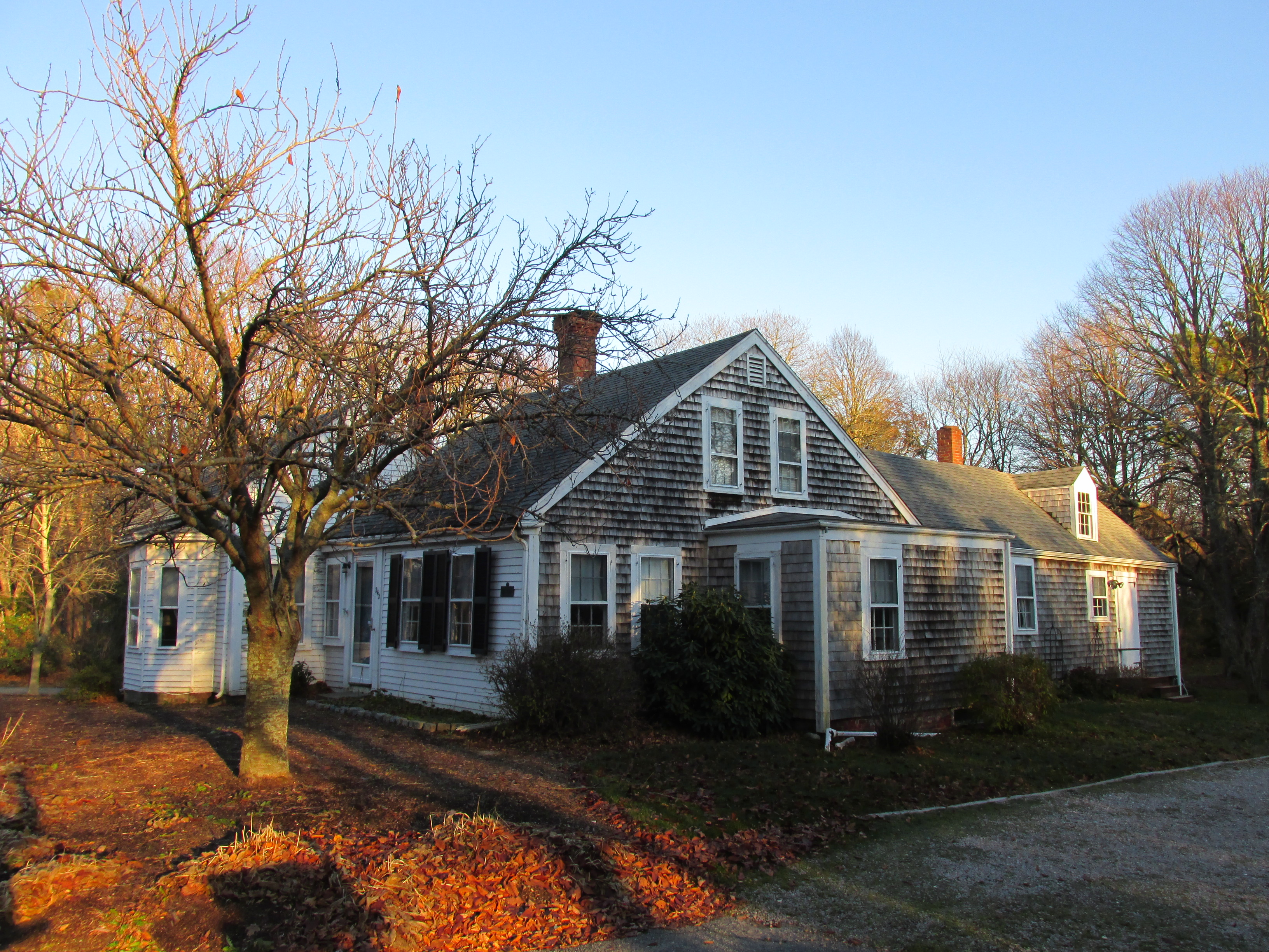 242 Phinneys Lane, Centerville Massachusetts